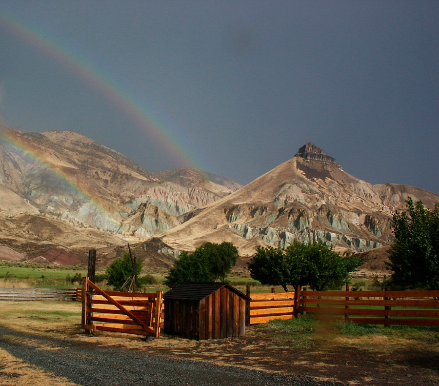 Sheep Rock, John Day Fossil Beds National Monument, Oregon